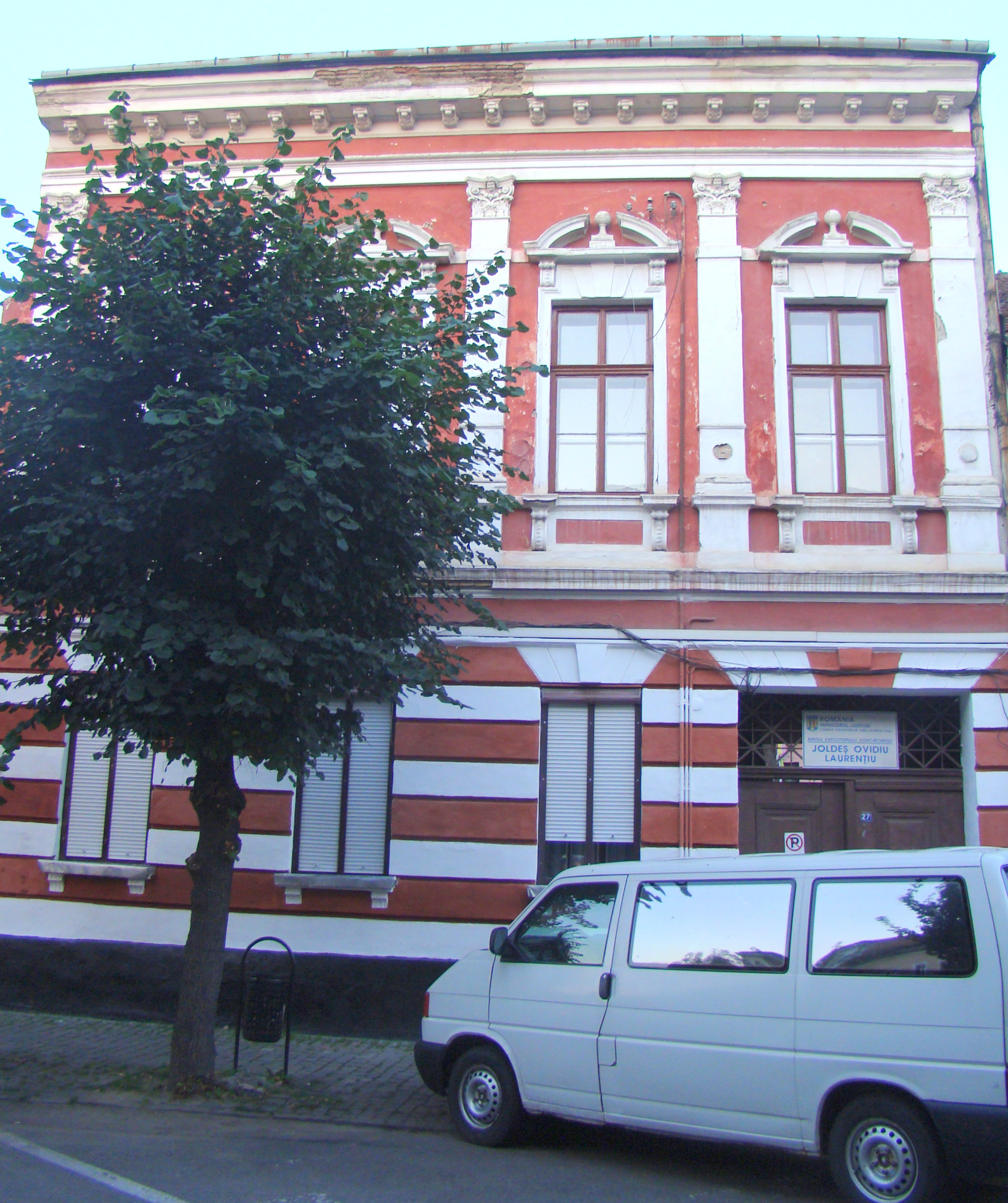 House, historic monument, in Bistrița, Nicolae Titulescu street 27